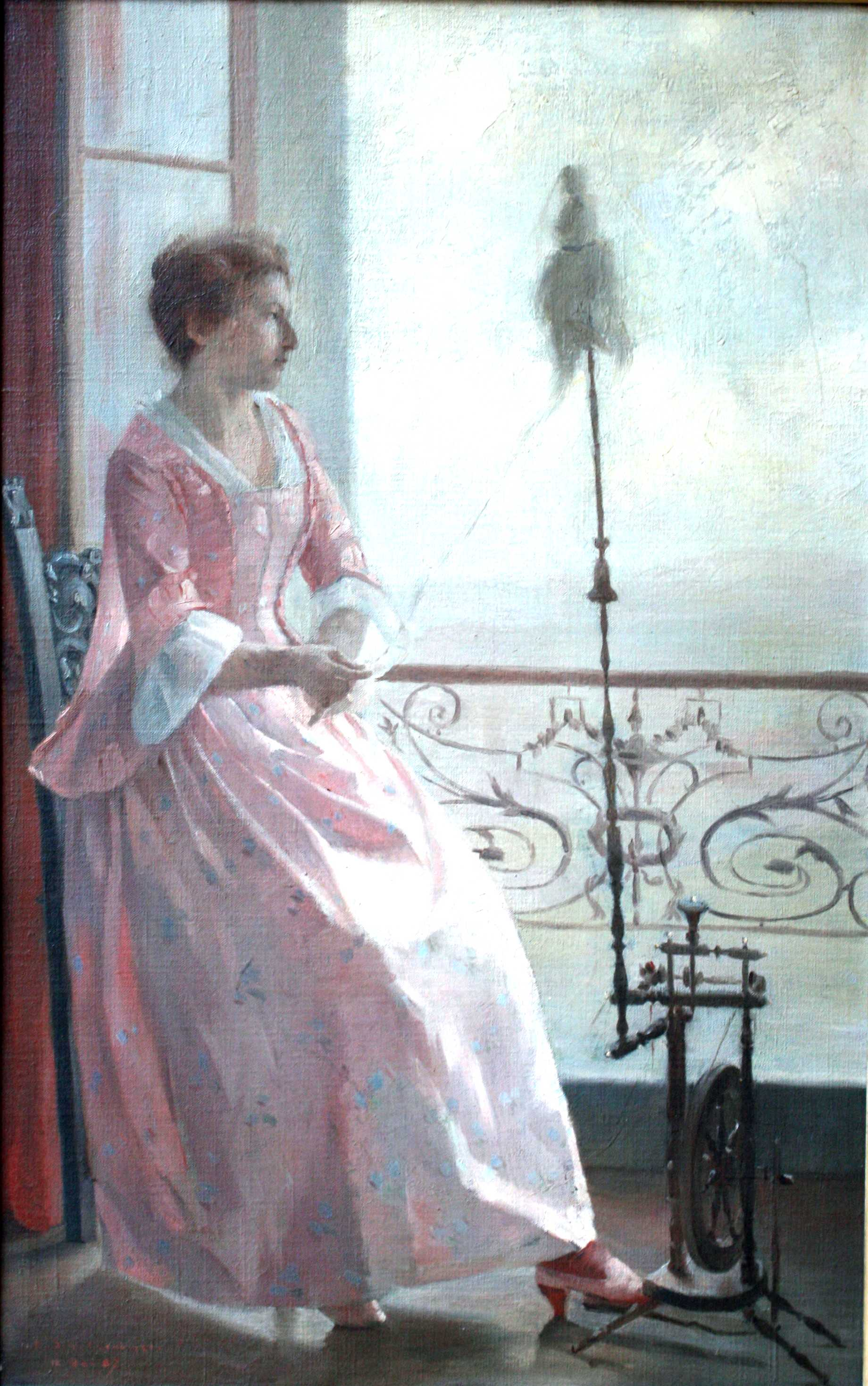 "Young Woman Spinning Yarn by the Window"